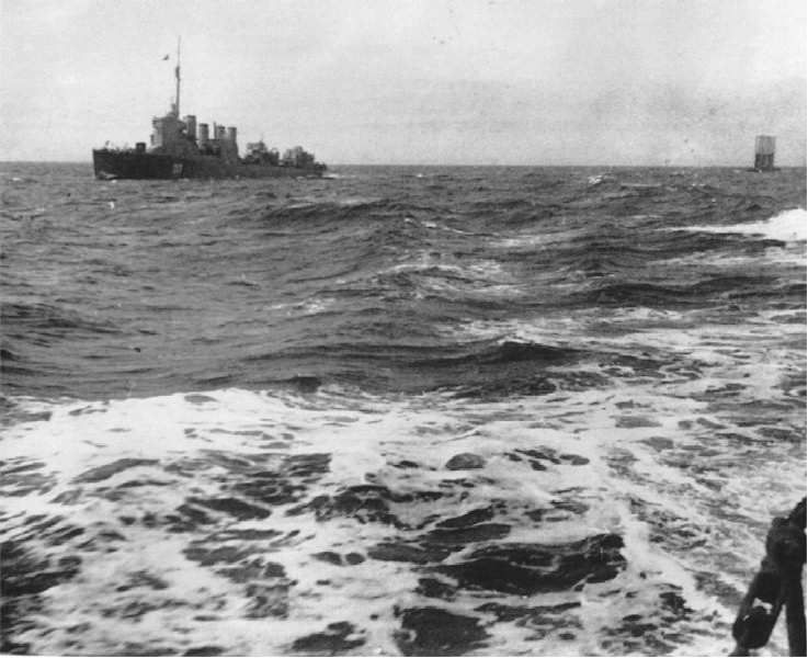 The Soviet Union Zhguchiy (ex-HMS Richmond, ex-USS Fairfax) underway postwar towing a torpedo target. Undated, location unknown.